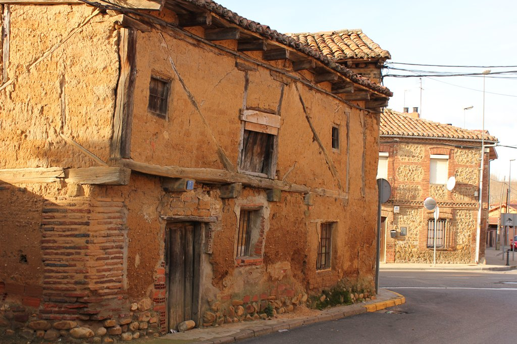 Old house with mud